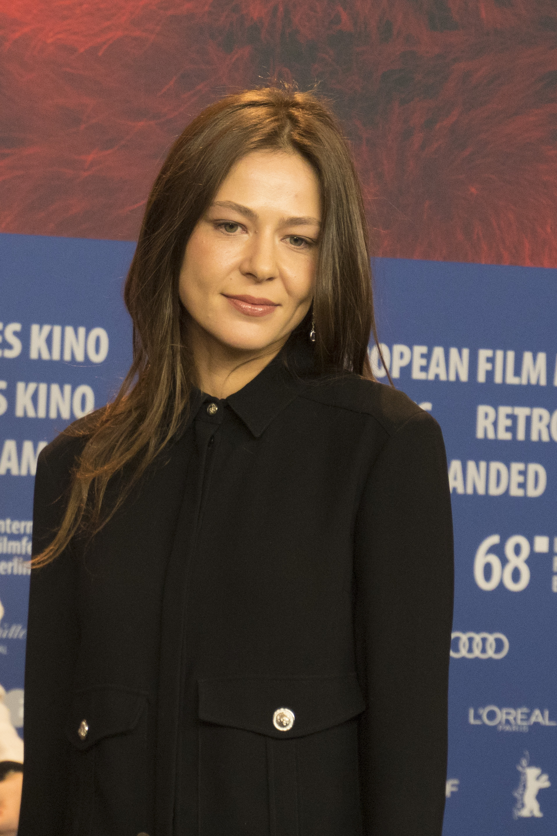 Elena Lyadova at the press conference of Dovlatov at Berlinale 2018.